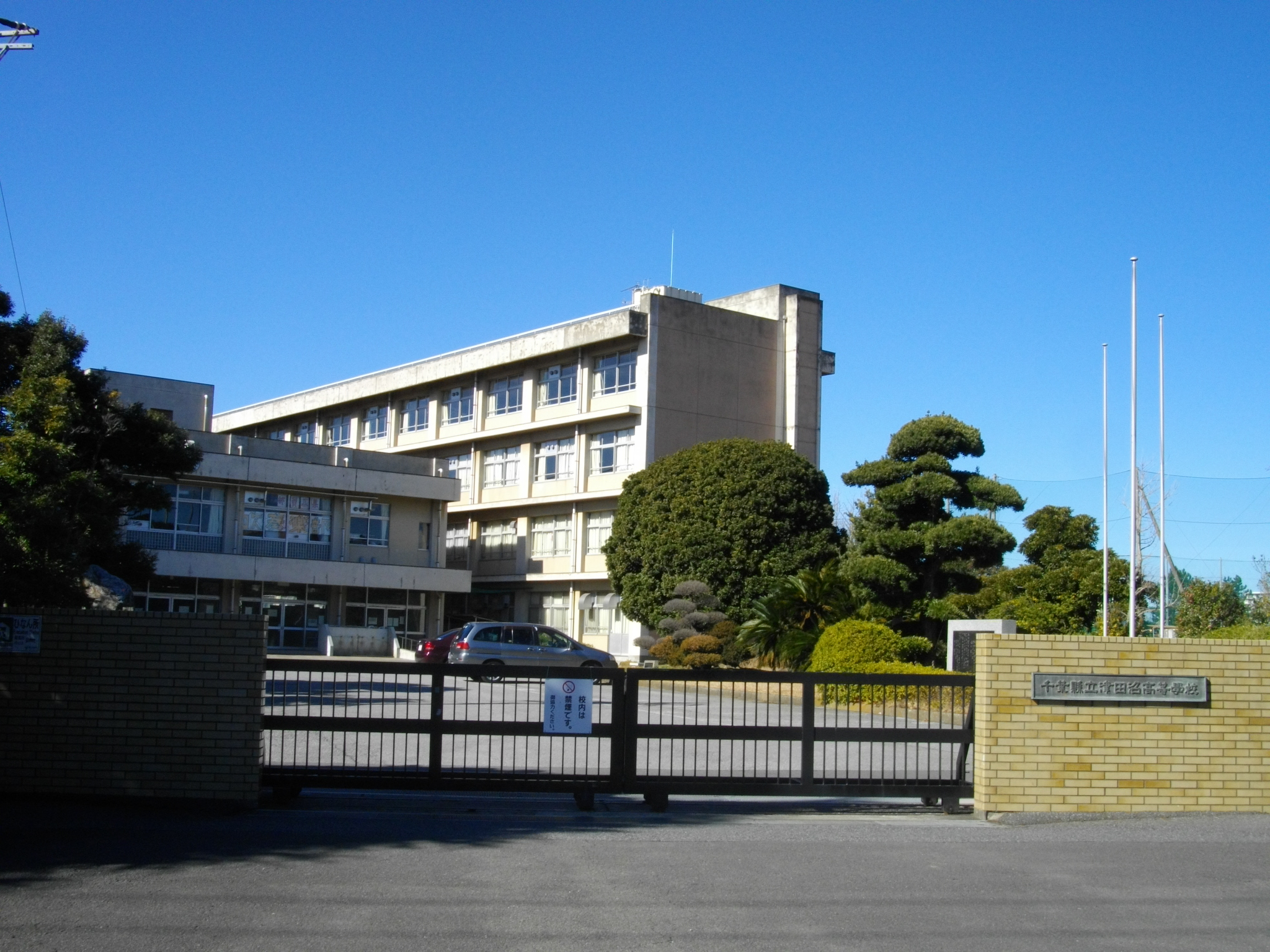 Tsudanuma High School